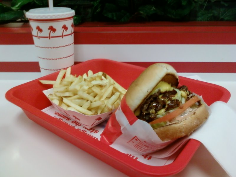 A Double Double Animal Style, plain fries and a large drink. Taken at the In-N-Out at the corner of Grand and Valley Blvd. in Walnut, CA.